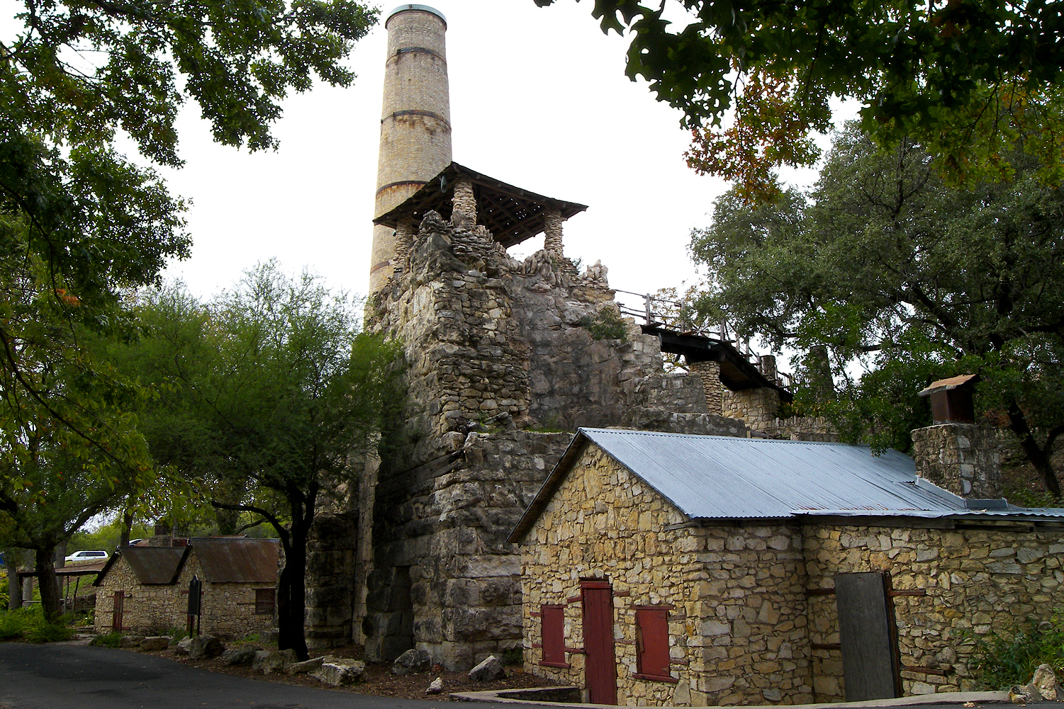 The Alamo Portland and Roman Cement Works located in Brackenridge Park, San Antonio, Texas, United States. The site was added to the National Register of Historic Places on December 12, 1976.